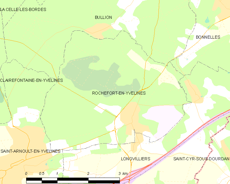 Map of French municipality Rochefort-en-Yvelines